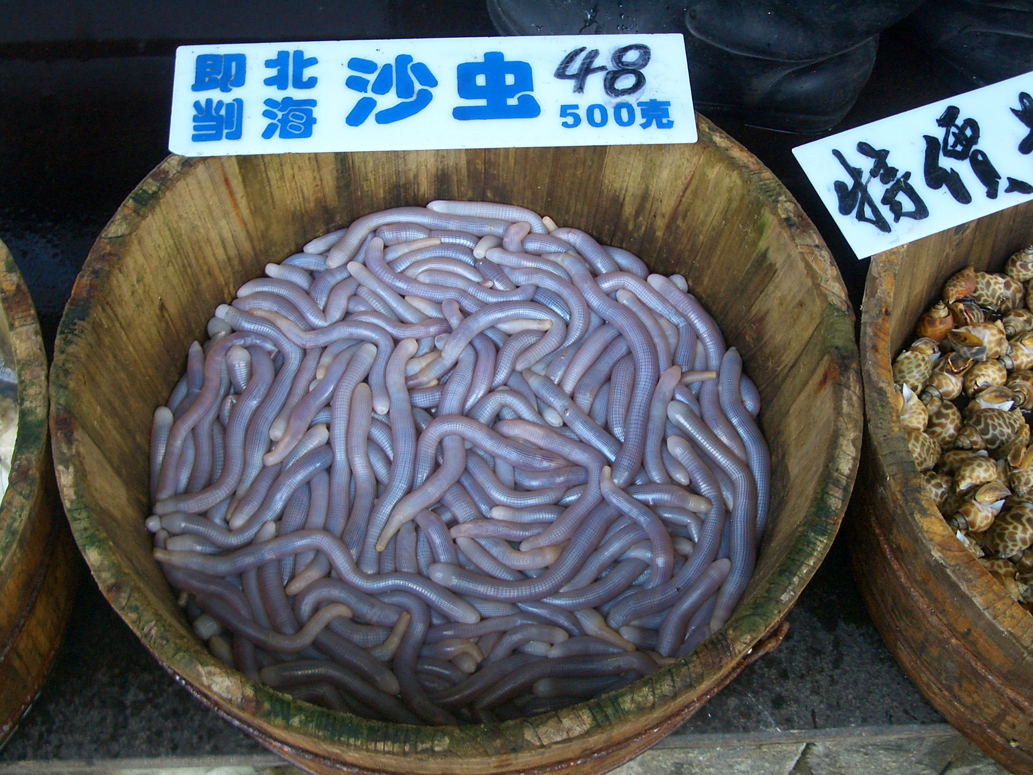 A bucket of deliciously-looking purple worms (labeled 即劏北海沙虫 - "'Sand worms' from Beihai, to be killed on demand") at a street vendor in Guangzhou. At 48 yuan / 500 g (around $7/lb), they look quite affordable... The second character in the sign (劏, in its simplified form), "to slaughter / to butcher", is peculiarly Cantonese. 粵語: 即劏北海沙虫